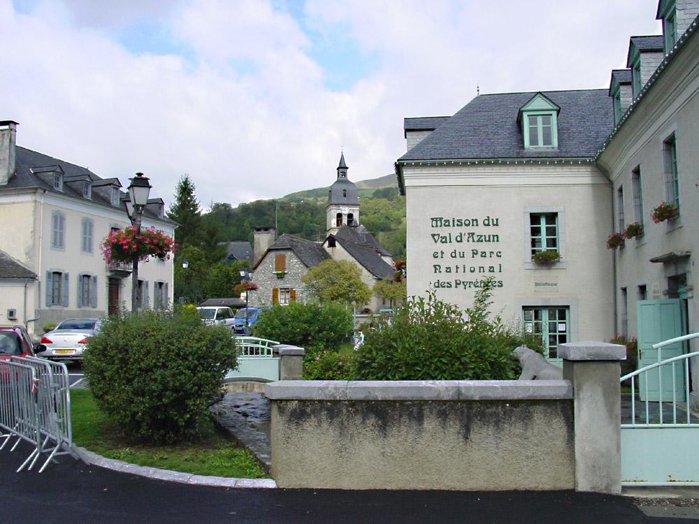 Photograph of the centre of Arrens-Marsous